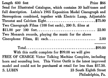 An advertisement for "The Bold Bank Robbery". It appeared in Billboard magazine's October 15, 1904 issue, and was the first advertisement for a film to appear there.